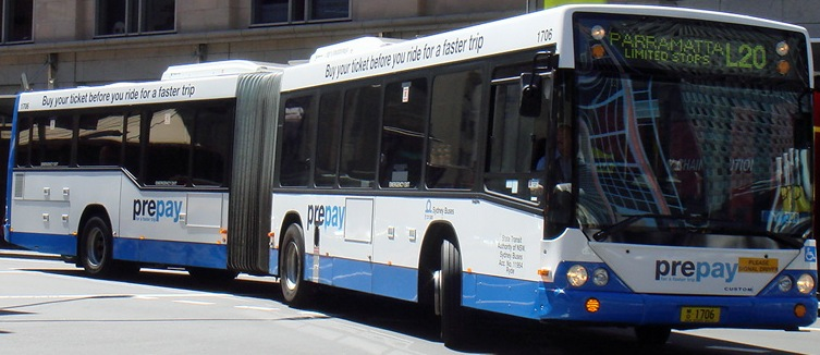 Sydney buses Volvo B12BLEA articulated vehicle. Photo taken by yanni6556